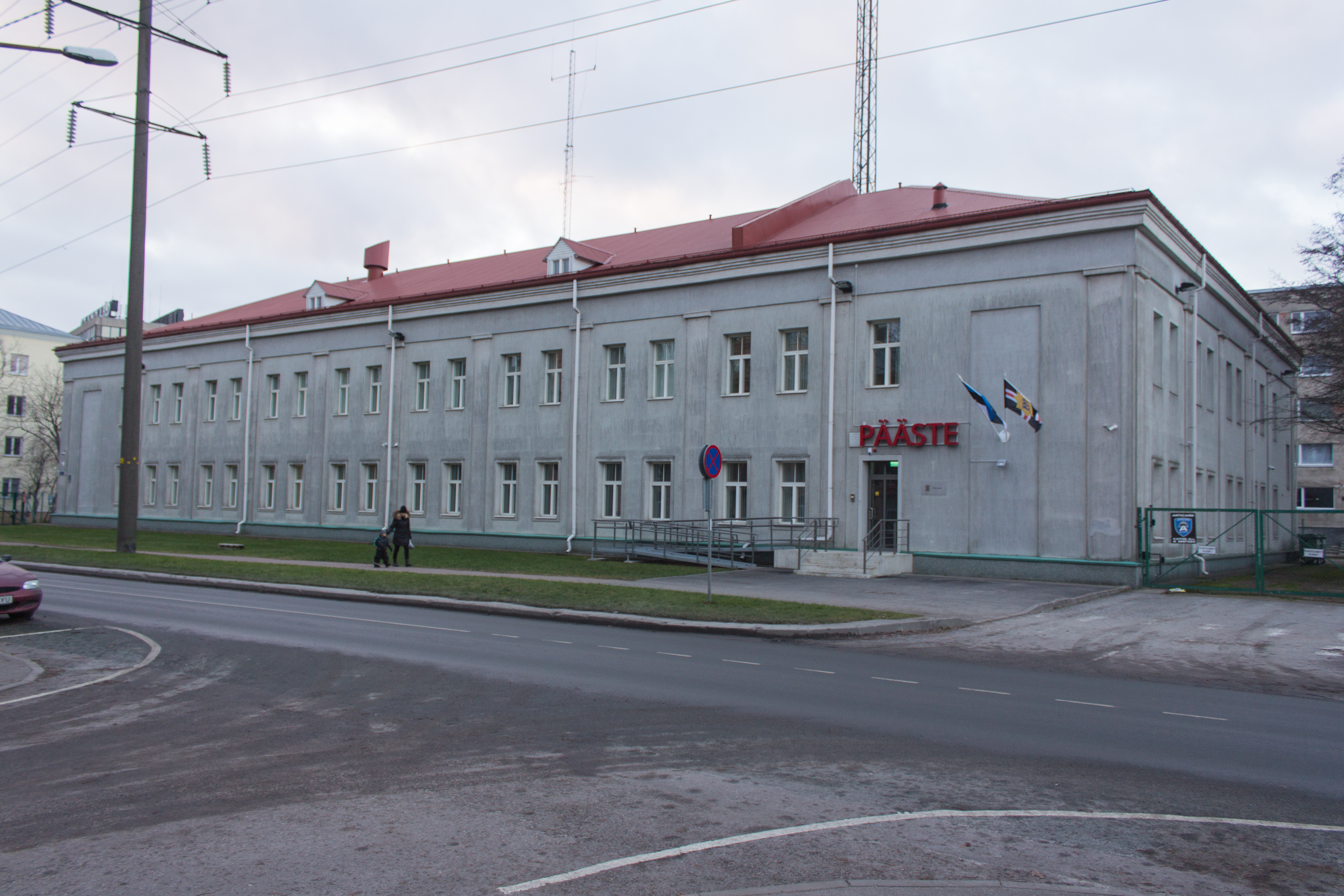 3 Erika Street, Tallinn, Estonia